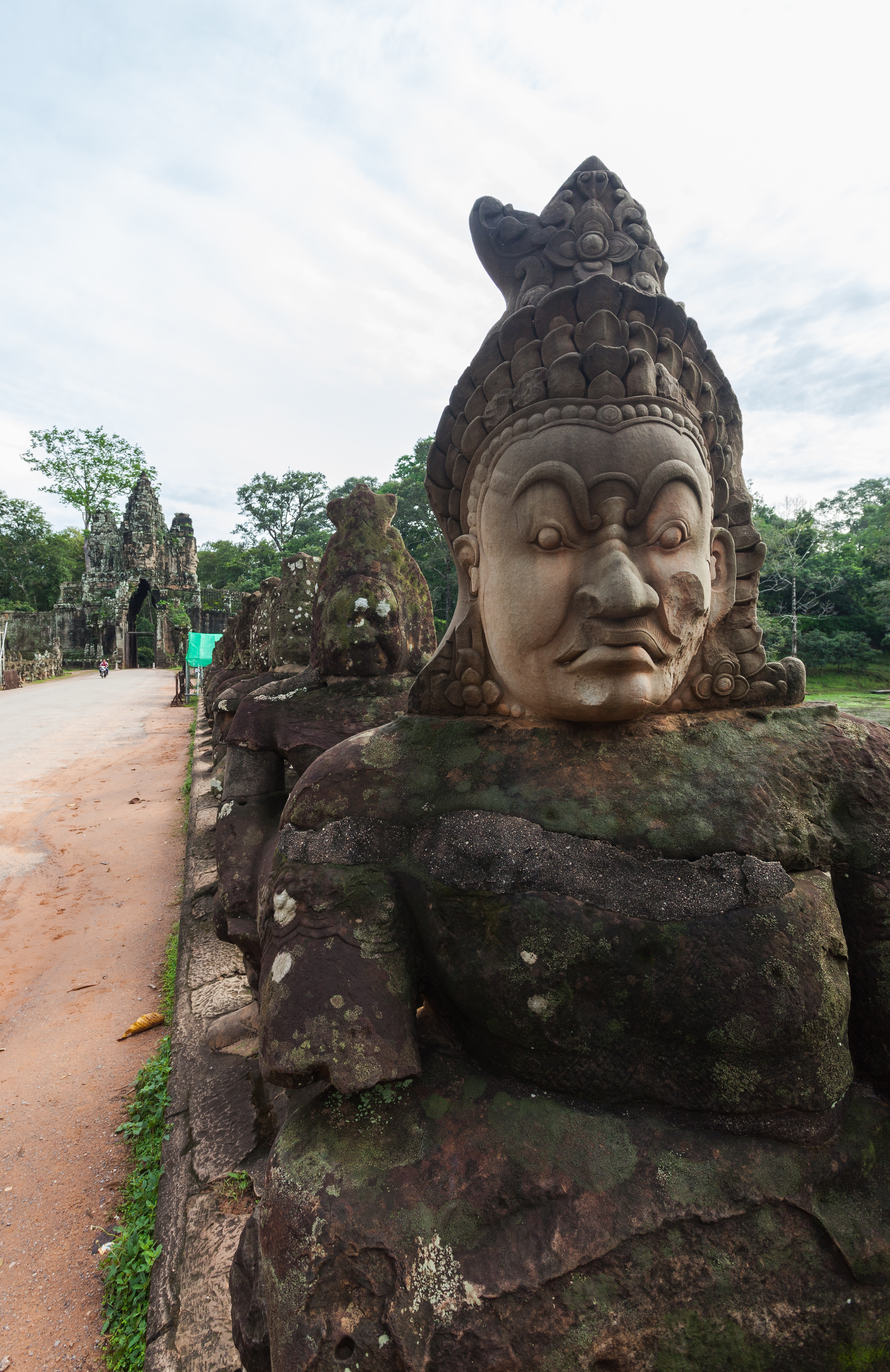 South Gate, Angkor Thom, Cambodia